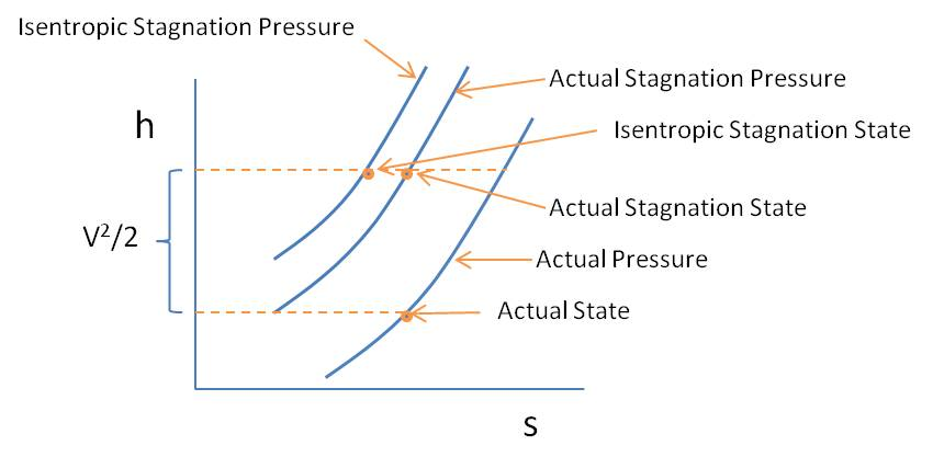 It describe the enthalpy-entropy relation.